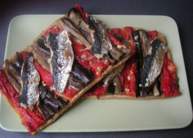 "Coca" with "escalivada" (grilled aubergine and red pepper) and fresh sardines. The coca de escalivada is often made with herrings ou sometimes anchovys conserved in olive oil instead of fresh ones. In some regions they are replaced with butifarres sucrées.